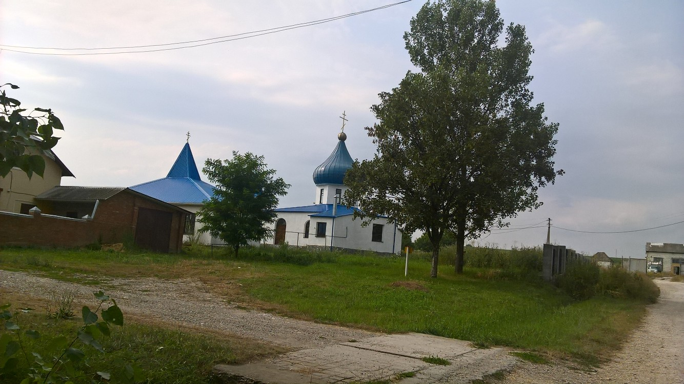 Church of St. Nicholas. It is located in the village of Sadovoe, Predgorny district, Stavropol krai.